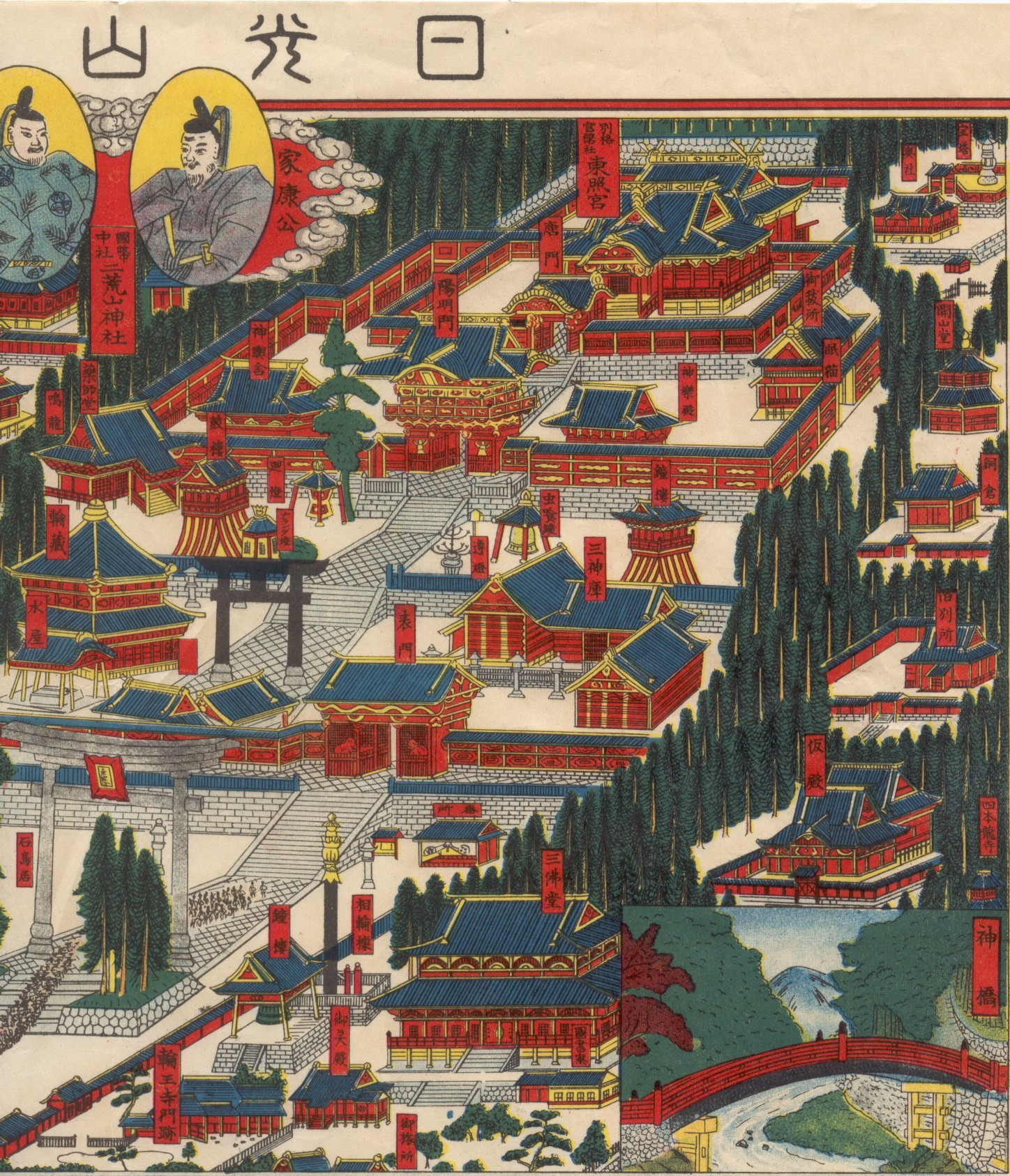 Part of an old map from Nikkô, showing the Tôshôgû.